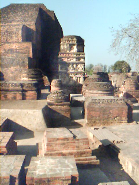 Shot by self in March, 2006, Nalanda, Bihar, India. Shot with a mobile phone camera and finished in Adobe photoshop.